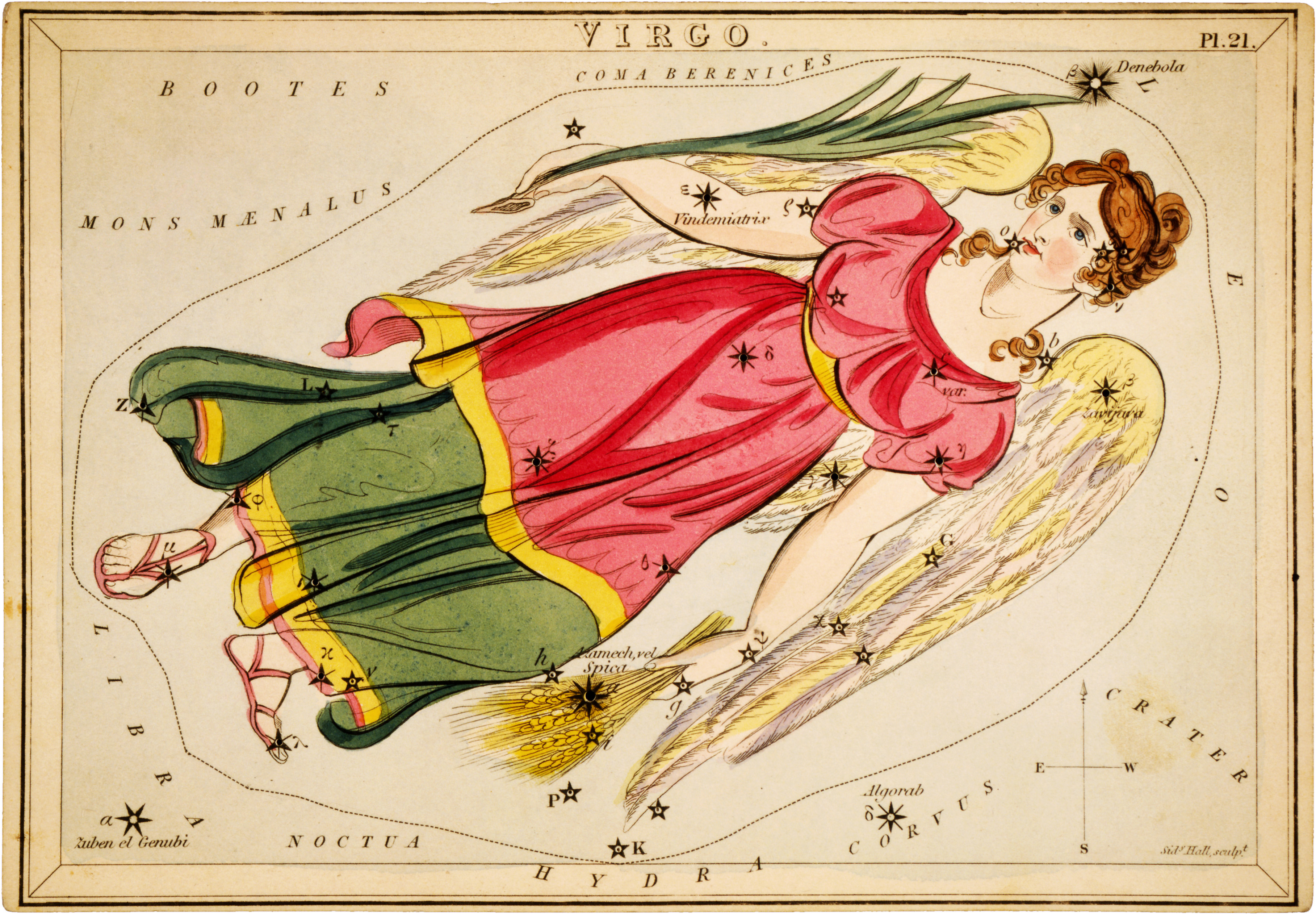 "Virgo", plate 21 in Urania's Mirror, a set of celestial cards accompanied by A familiar treatise on astronomy ... by Jehoshaphat Aspin. London : 1825. Astronomical chart showing a winged virgin holding wheat in her left hand and a lily(?) in her right hand forming the constellation. 1 print on layered paper board : etching, hand-colored.